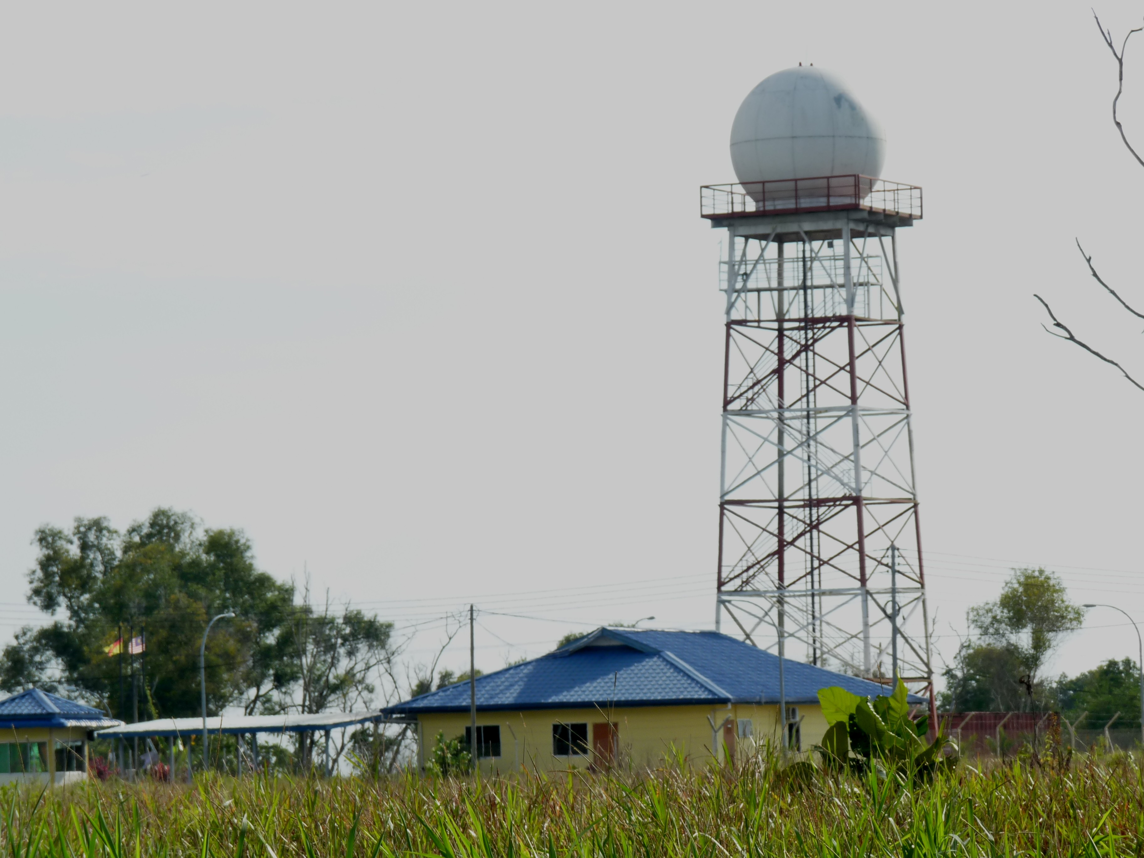 Weather radar situated in Miri, Sarawak, Malaysia on Canada Hill. It is operated by the Malaysian Meteorological Department.